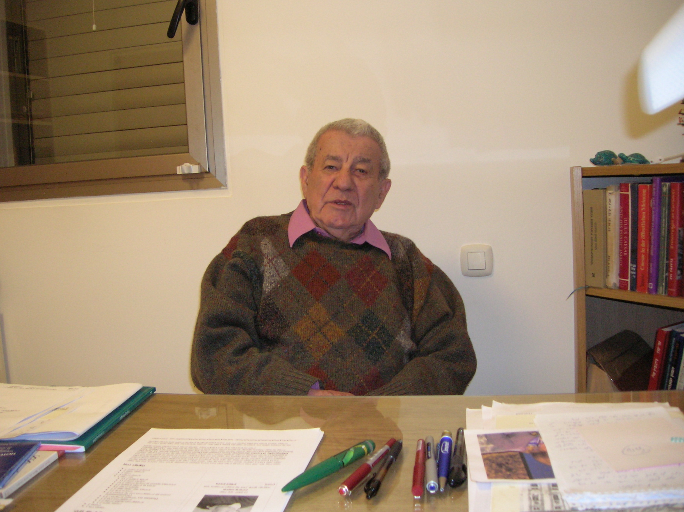 Prof. Zvi Yavetz